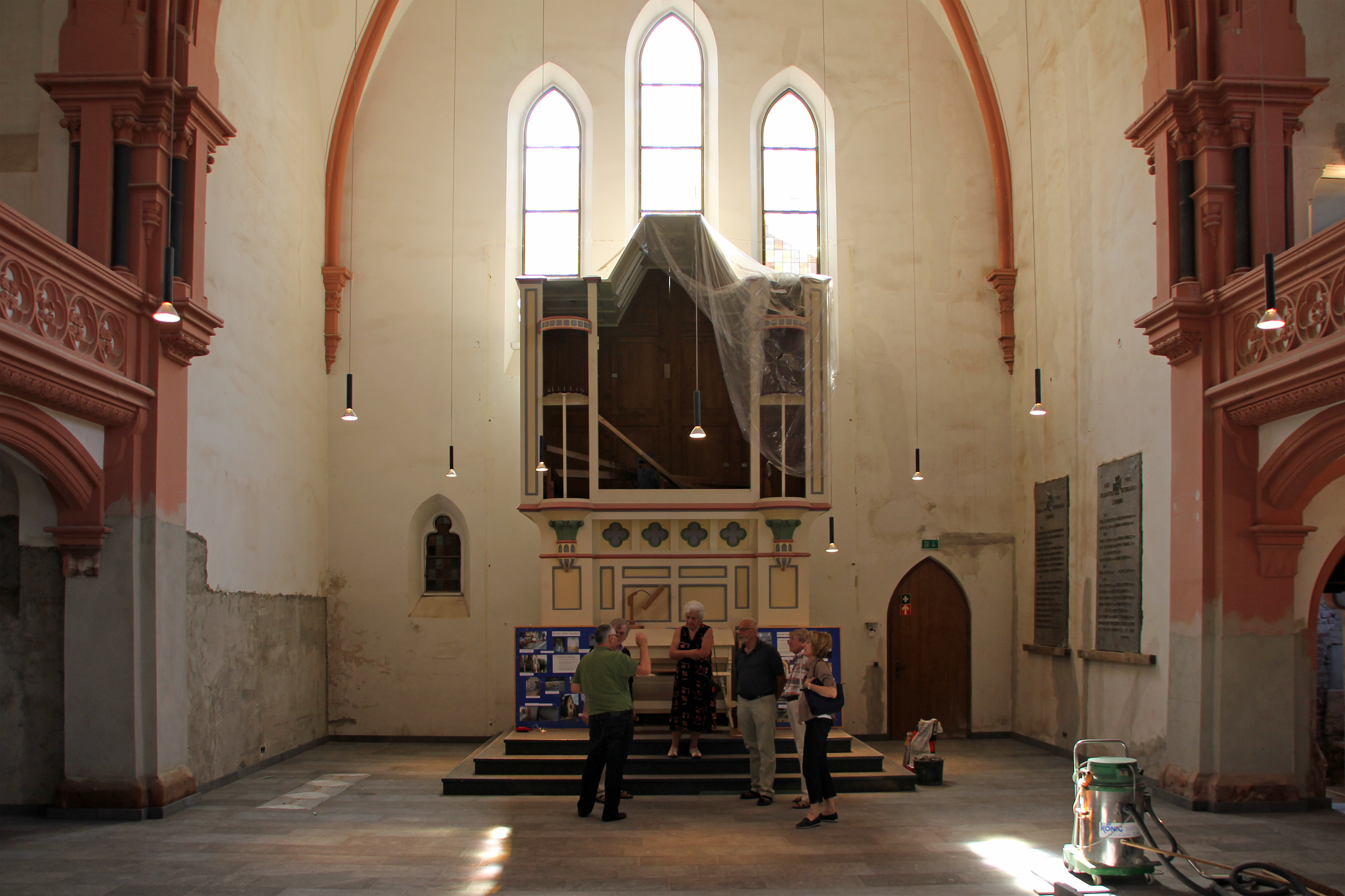 Evangelical Church in Koblenz-Pfaffendorf